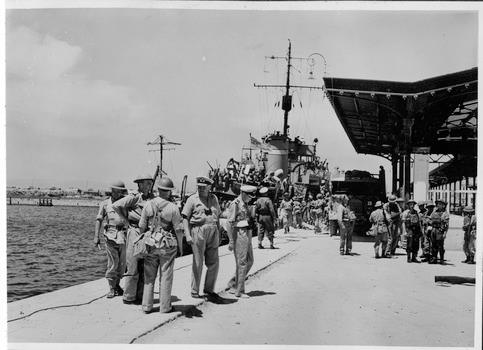 Soldati inglesi alla Marina di Siracusa - Seconda guerra mondiale